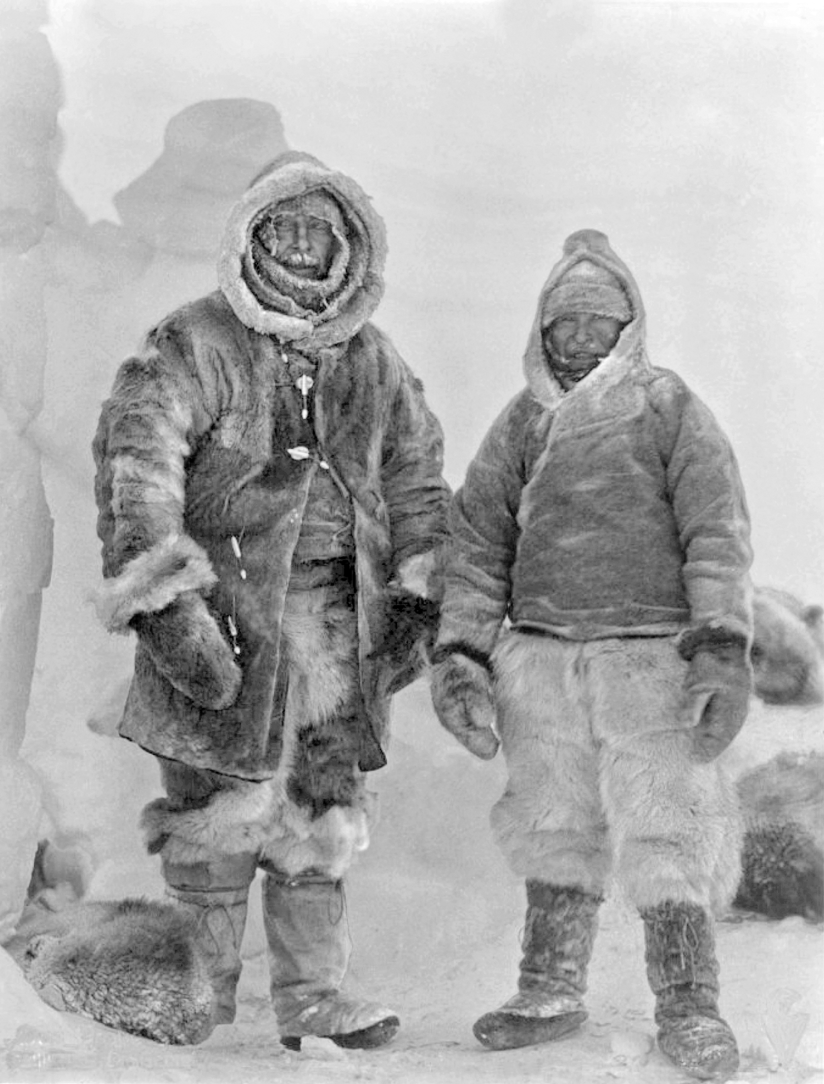 Photograph of the German expedition and overwintering in Greenland - Alfred Wegener (left) and Rasmus Villumsen (inuit) at station Eismitte. Last photo, both died presumably around the 16th November on the way back to the coast.